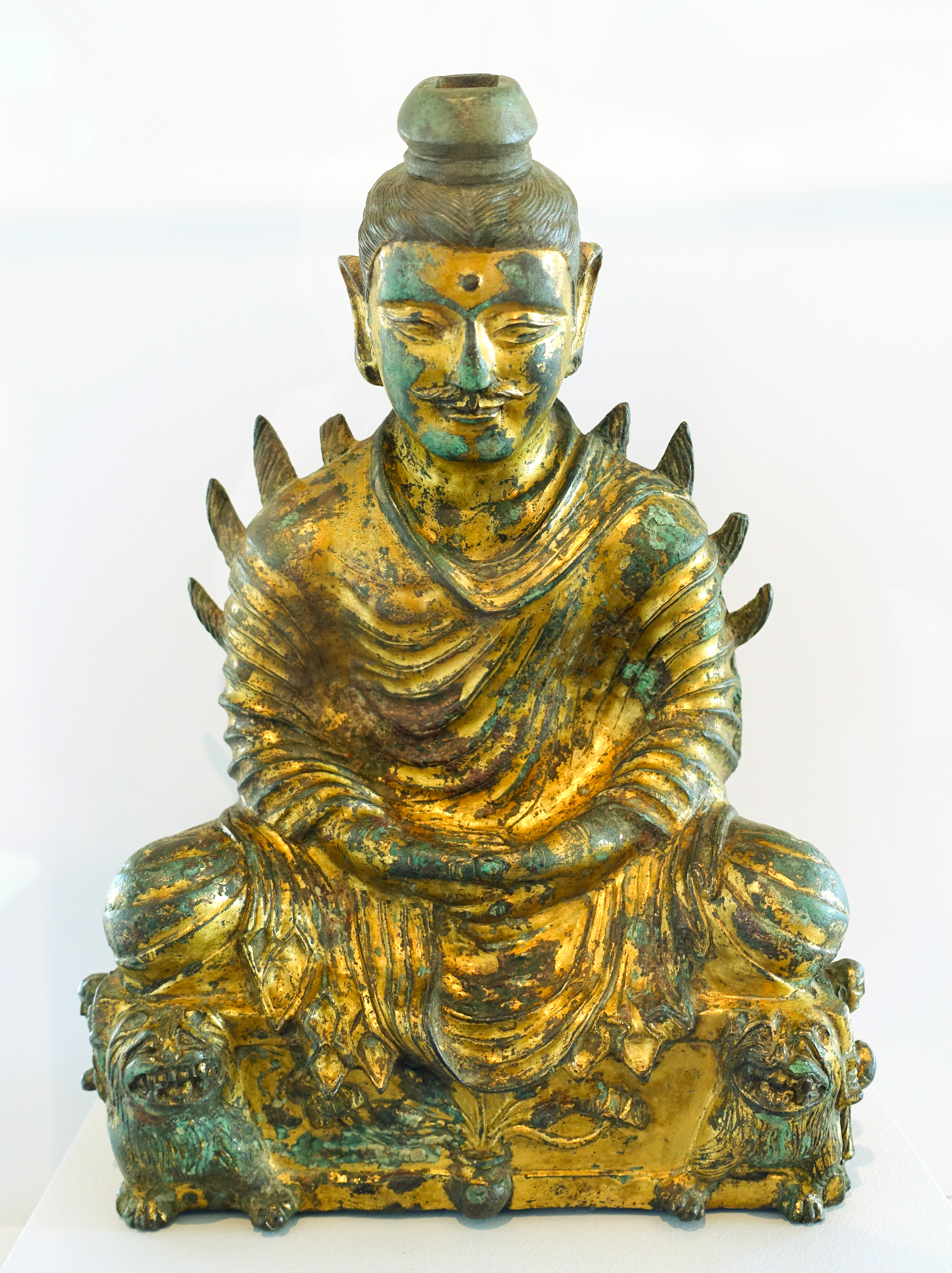 Exhibit in the Arthur M. Sackler Museum, Harvard University, Cambridge, Massachusetts, USA. This artwork is in the public domain because the artist died more than 70 years ago.